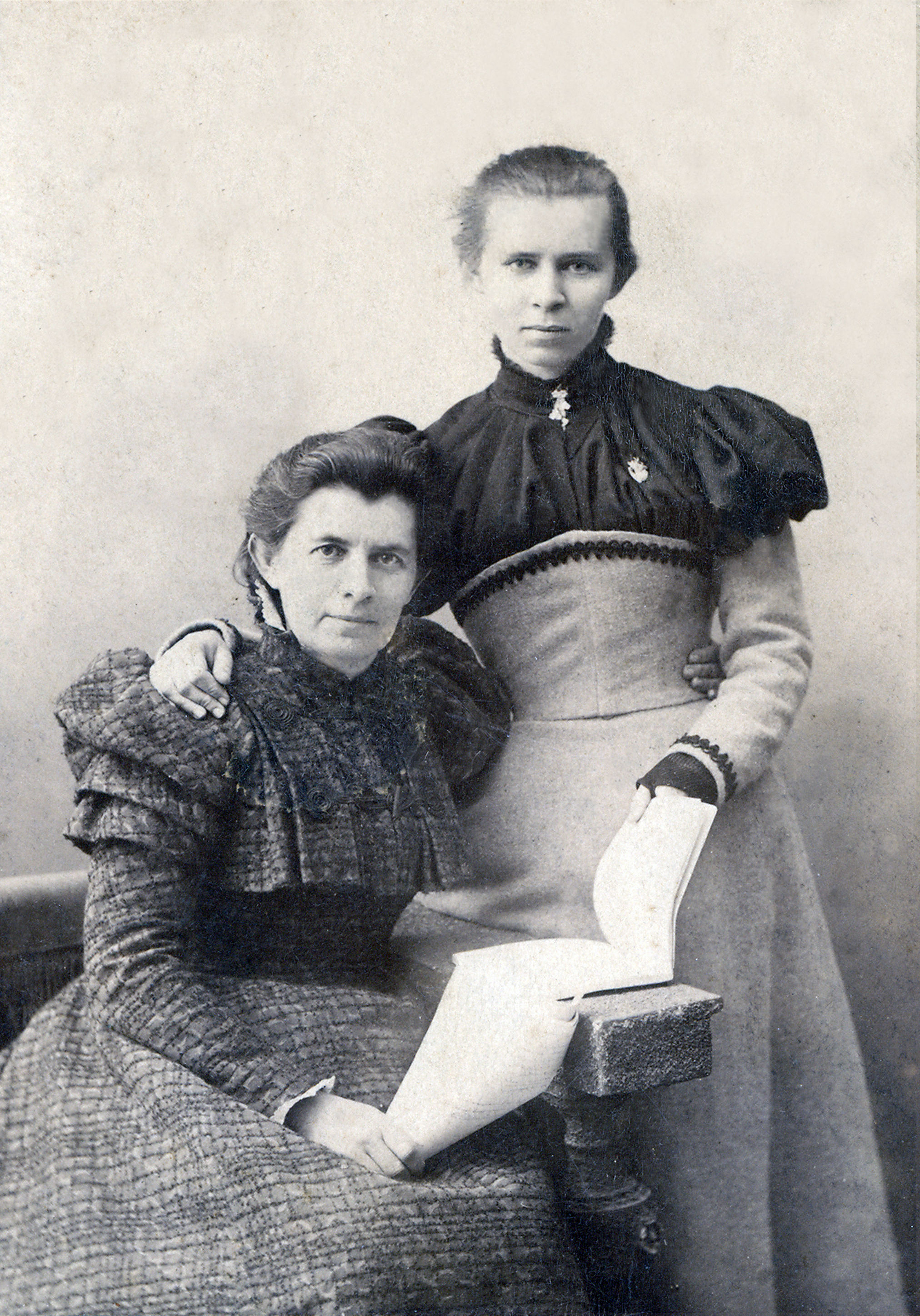 Olena Pchilka with her daughter Lesya Ukrainka, taken in Yalta, 1898.